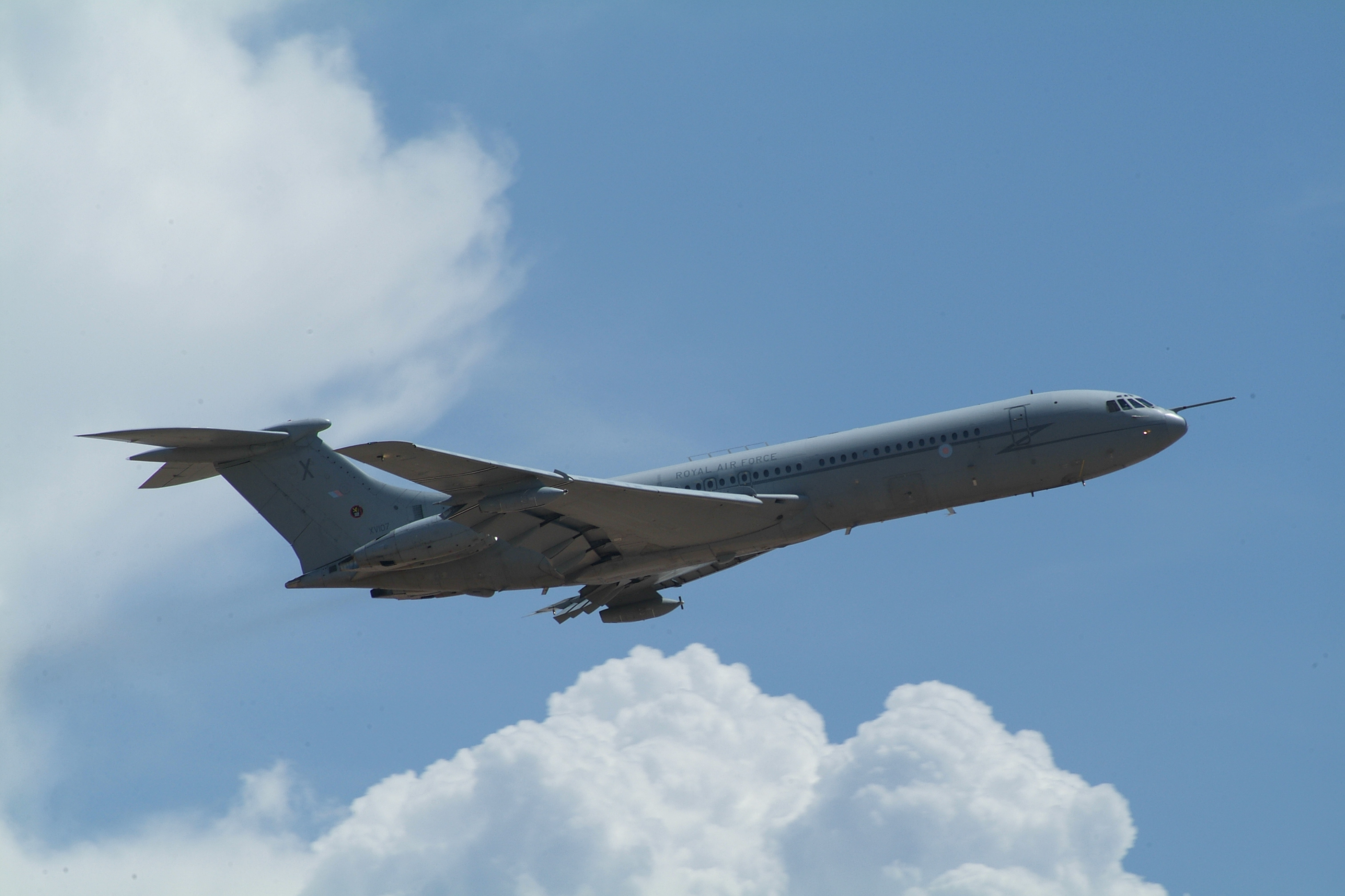 The first thing I saw flying when I arrived at Davis Monthan AFB in July was this RAF VC-10 blasting into the Arizona sky. Probably one of the oldest jets still serving with the RAF. The second was a 17 Squadron Typhoon following it! Not a good start to the day.